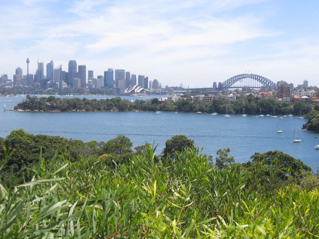 Sydney city, Sydney Harbour Bridge and Sydney Opera House as seen from Taronga Zoo